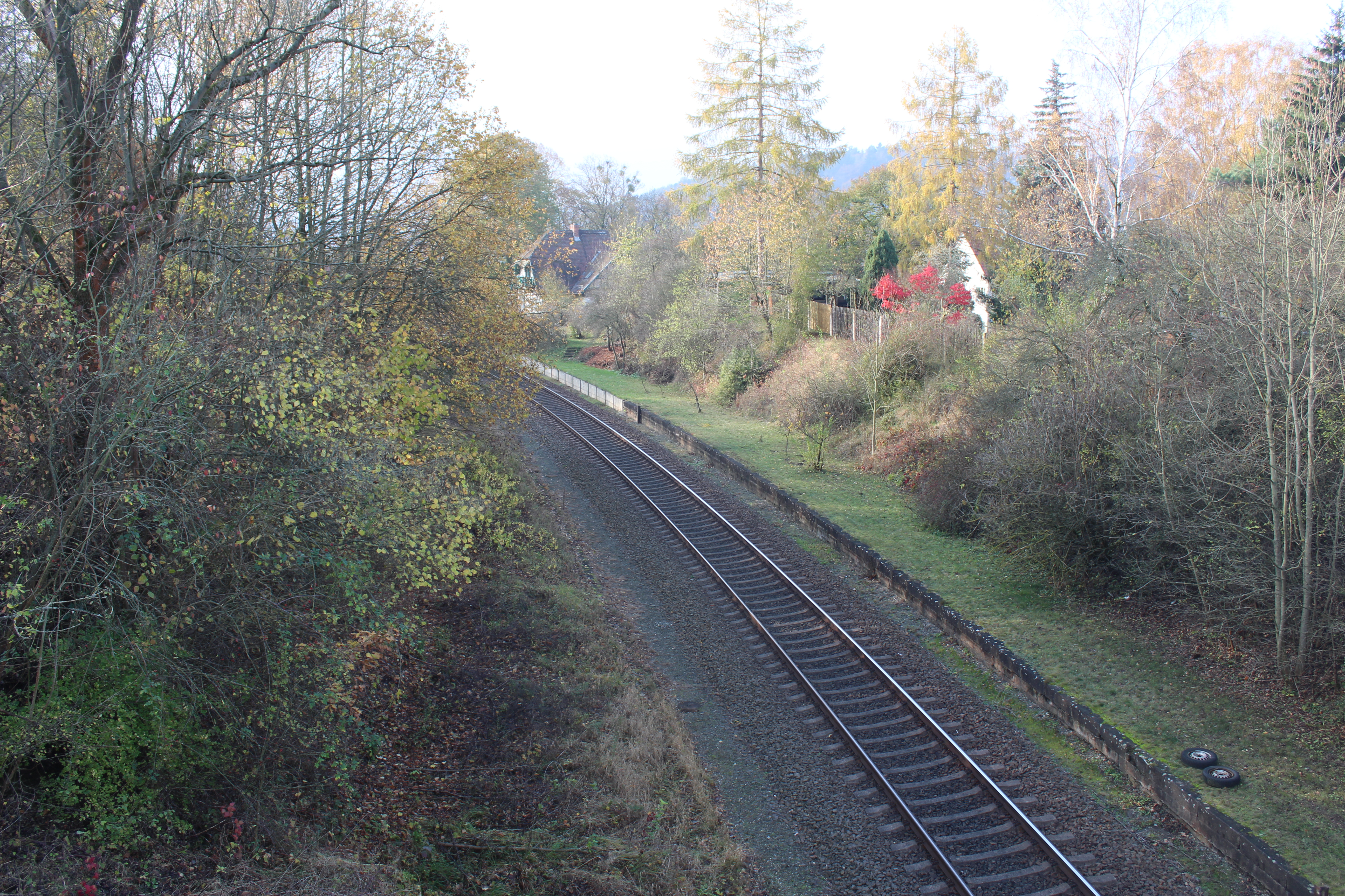 tran station Gera-Thieschitz